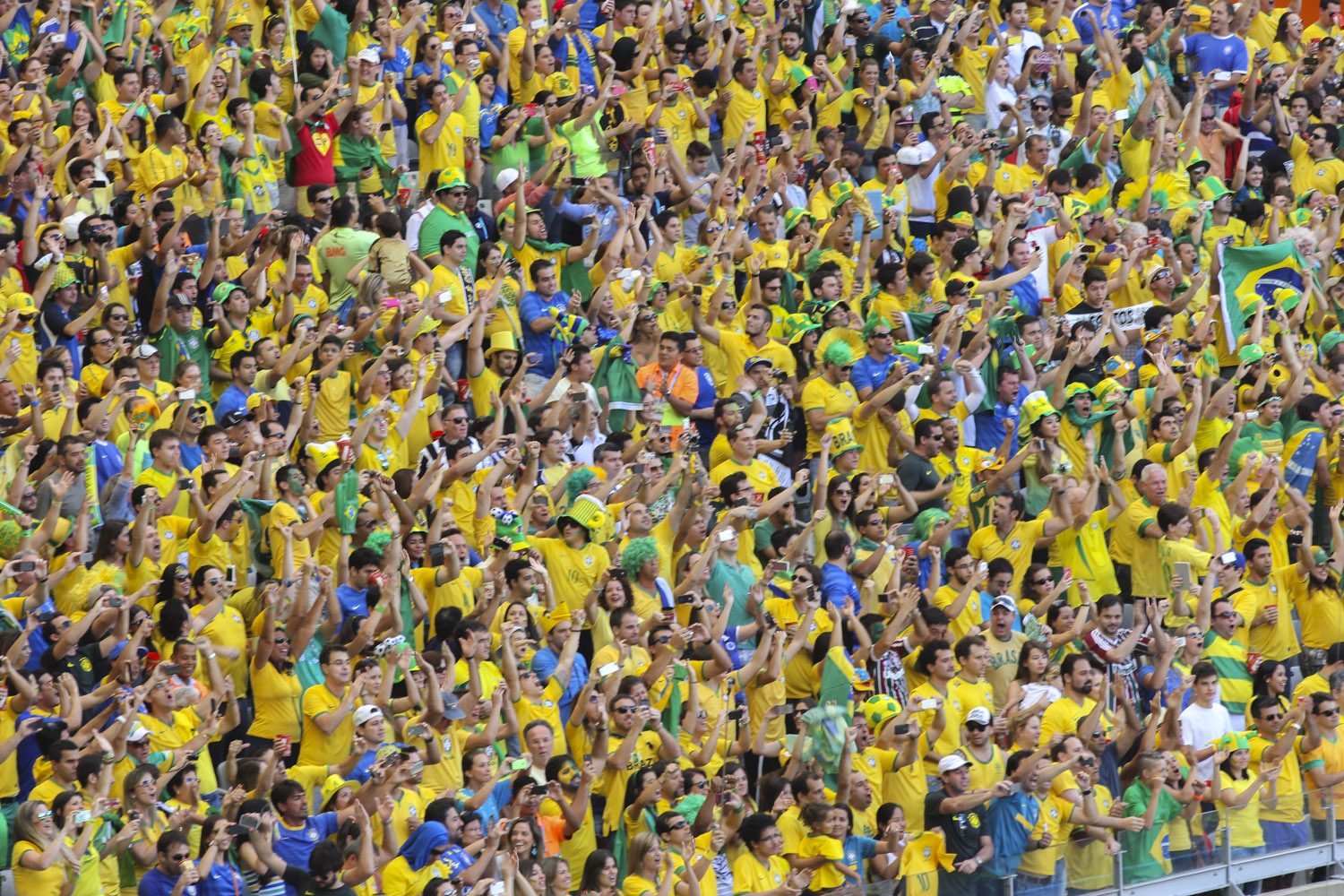 Brazil vs. Chile in Mineirão